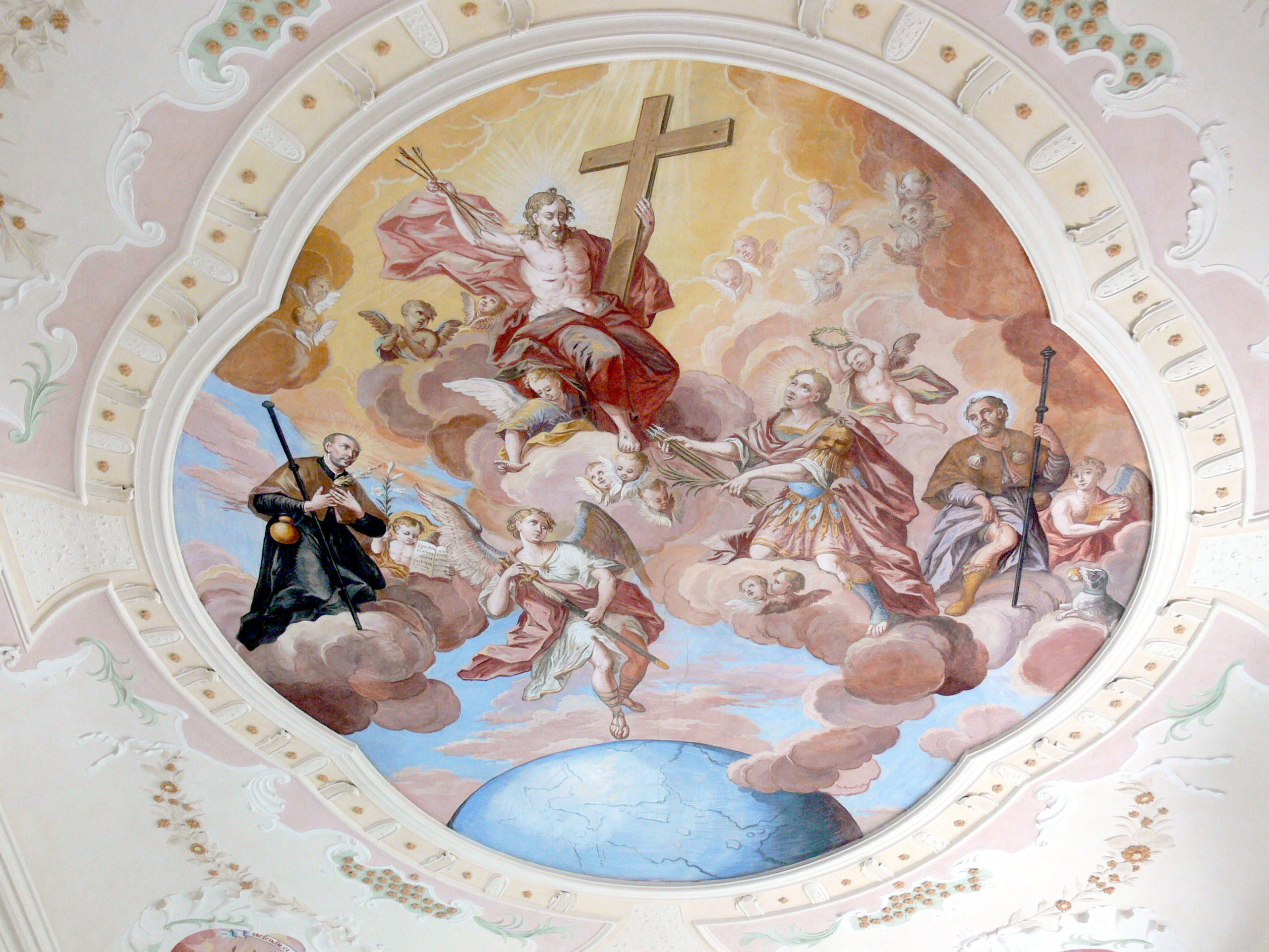 Wolframs-Eschenbach. Cemetery church St.Sebastian. Apotheosis of Saint Sebastian ( 1741 ) by Johann Michael Zinck of Neresheim